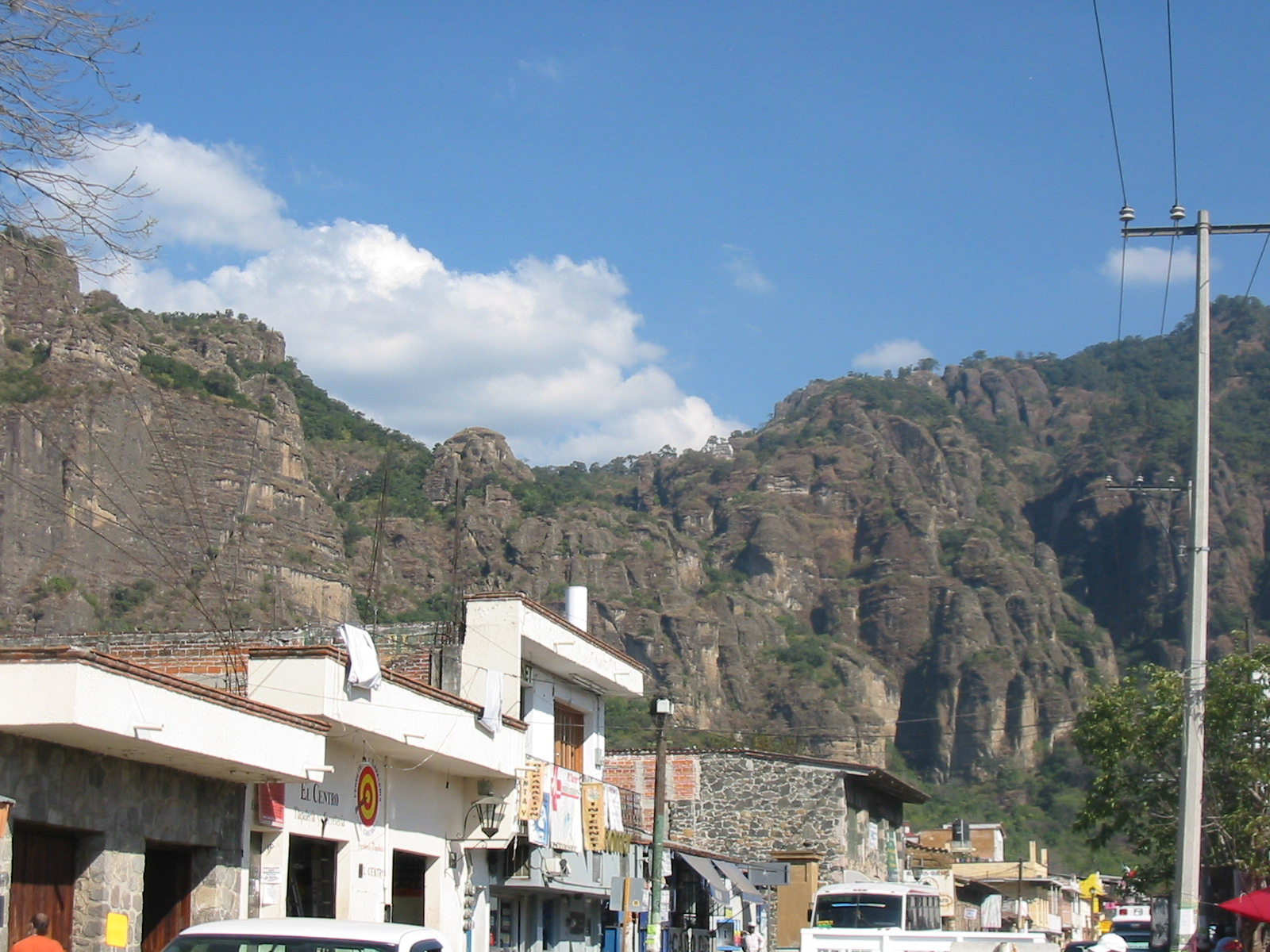 view of Tepozteco pyramid from Tepoztlán